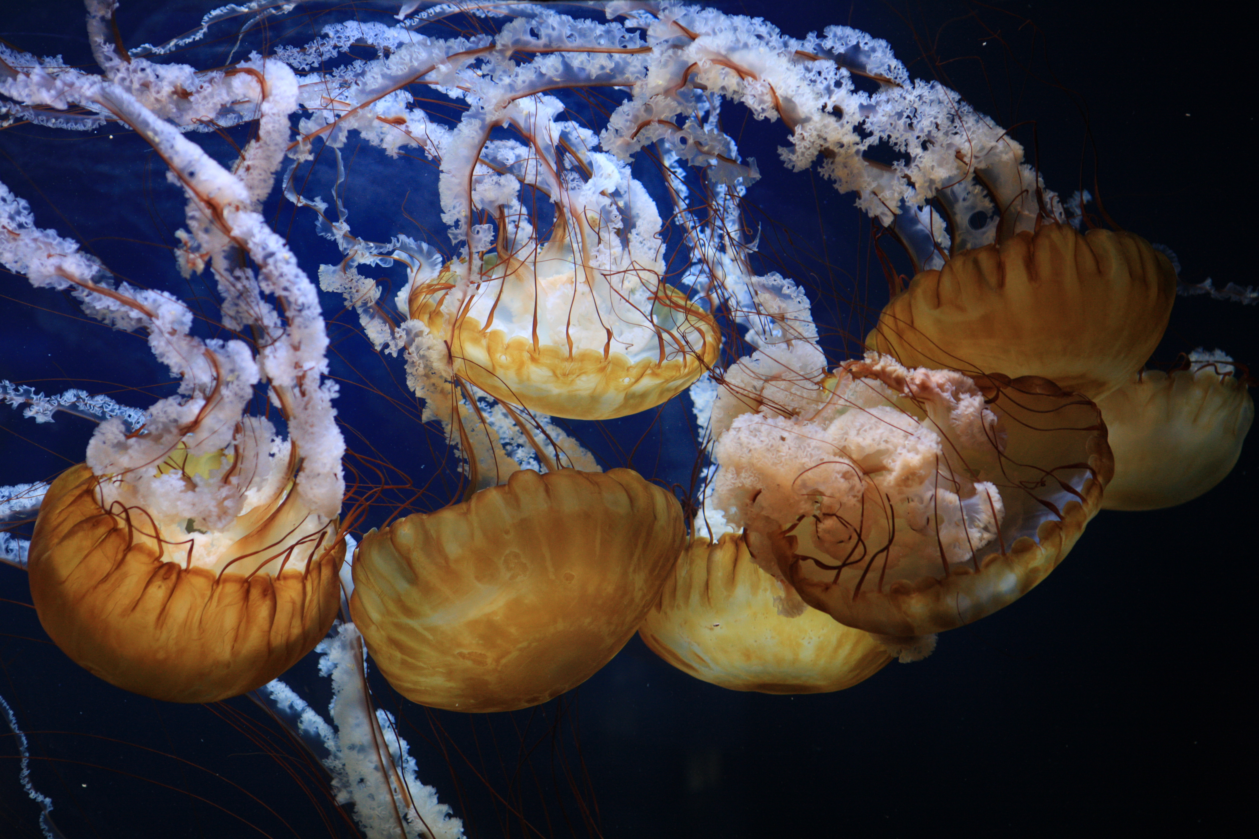 Pacific Sea Nettles, Chrysaora fuscescens, are most commonly found along the California and Oregon coasts, and range into the Gulf of Alaska and Mexico. The animals are medusivores, meaning they dine on other jelly species. Brown Sea Nettles are equipped with nematocysts or stinging cells, which are located within their tentacles. The animal has no control over what it stings, and does so instantly when touched.